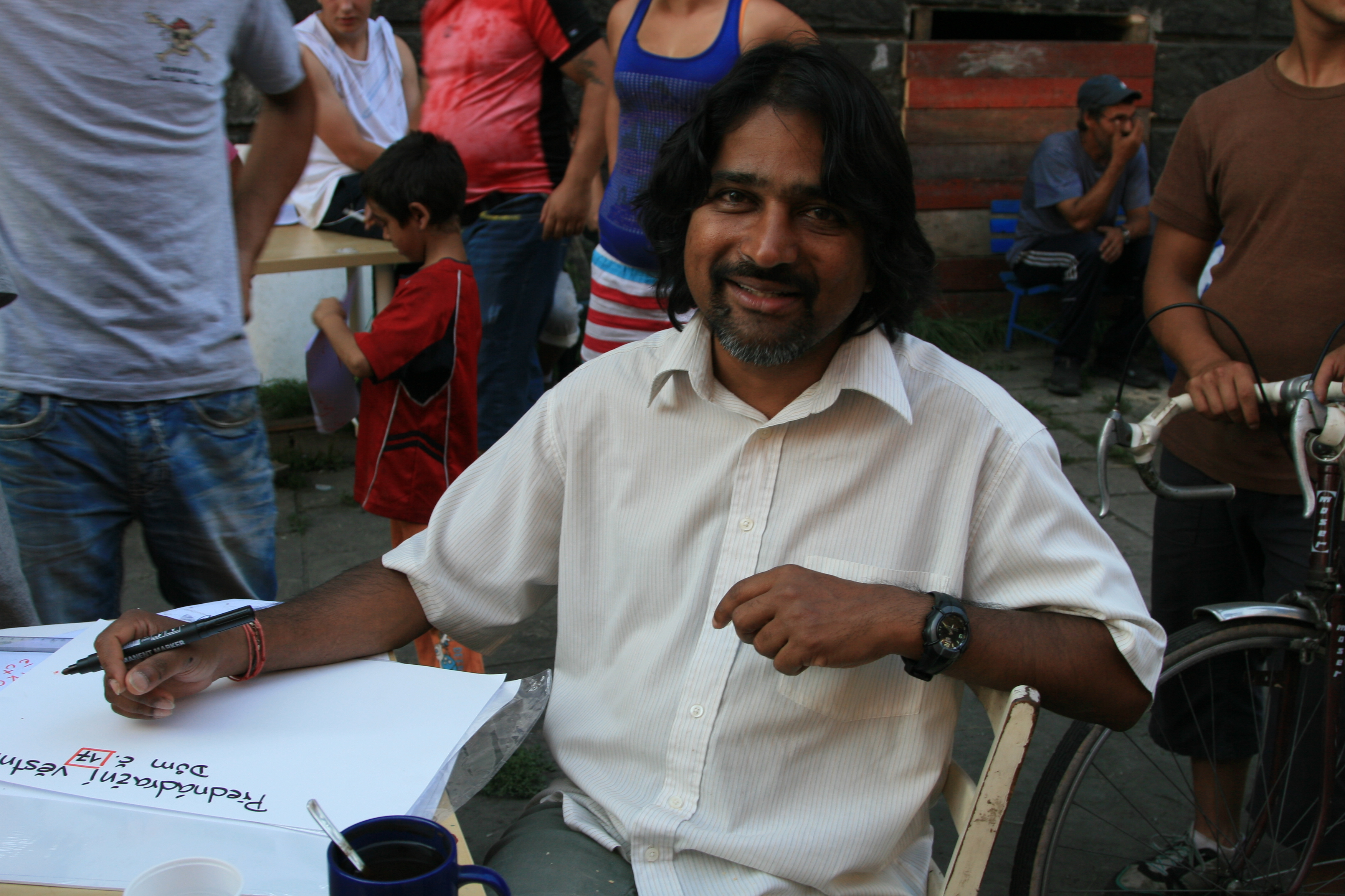 Activist Kumar Vishwanathan